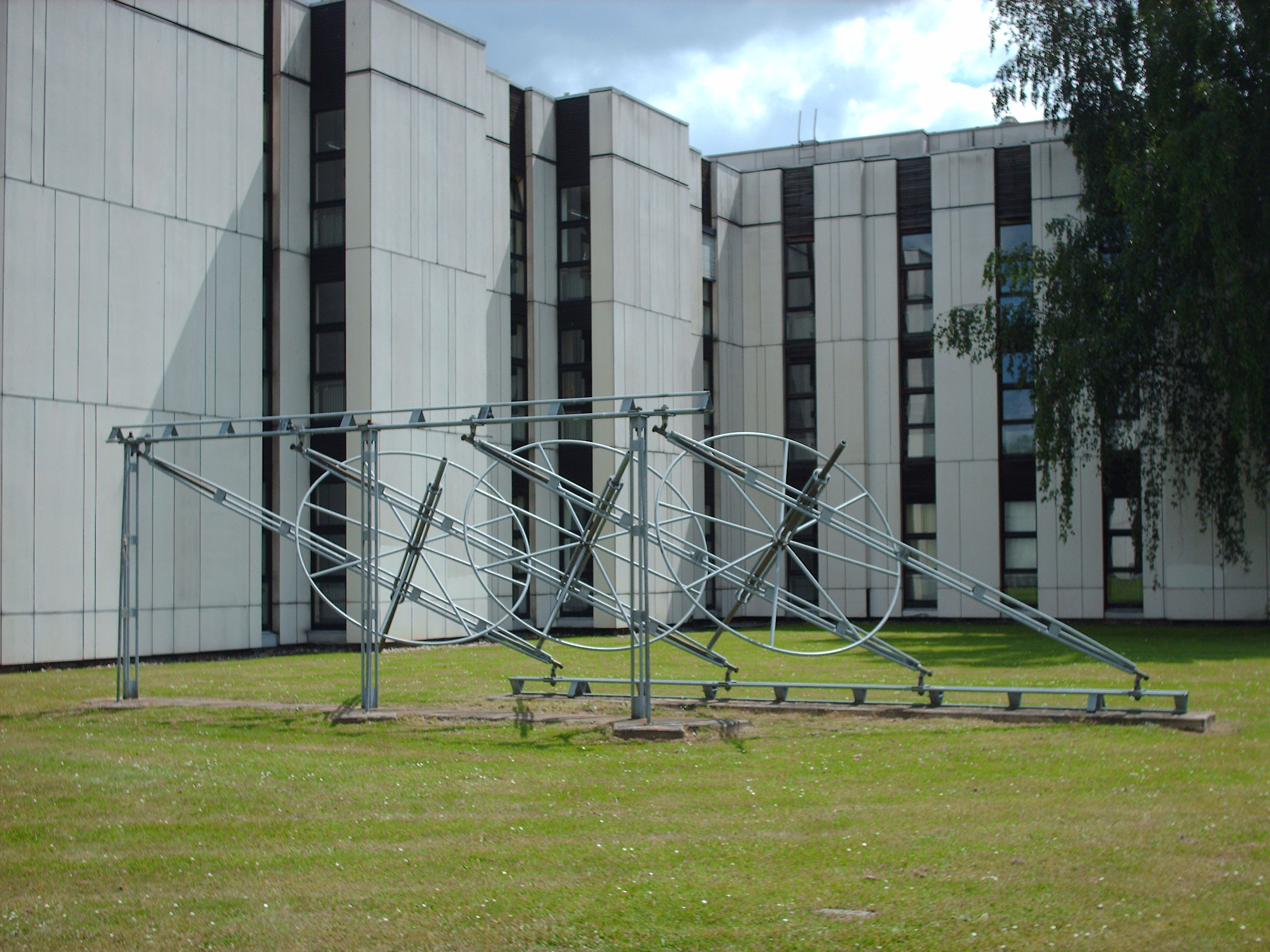 Räderwerk Nord by Vincenzo Baviera, part of Gießener Kunstweg, Gießen, Germany check usage